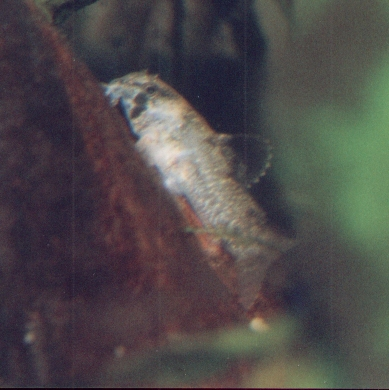 Author: User:Calilasseia Photograph of 3rd gneration offspring from my aquarium breeding stock taken September 2004, original image on print from 35mm negative